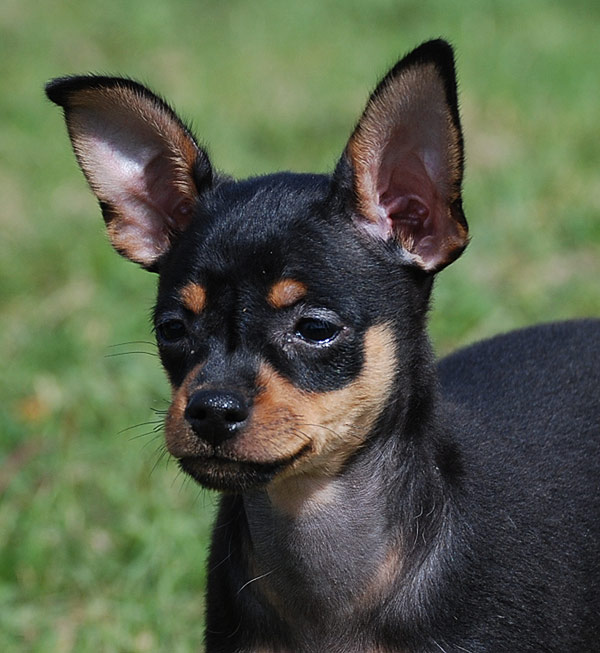 smooth haired russkiy toy puppy